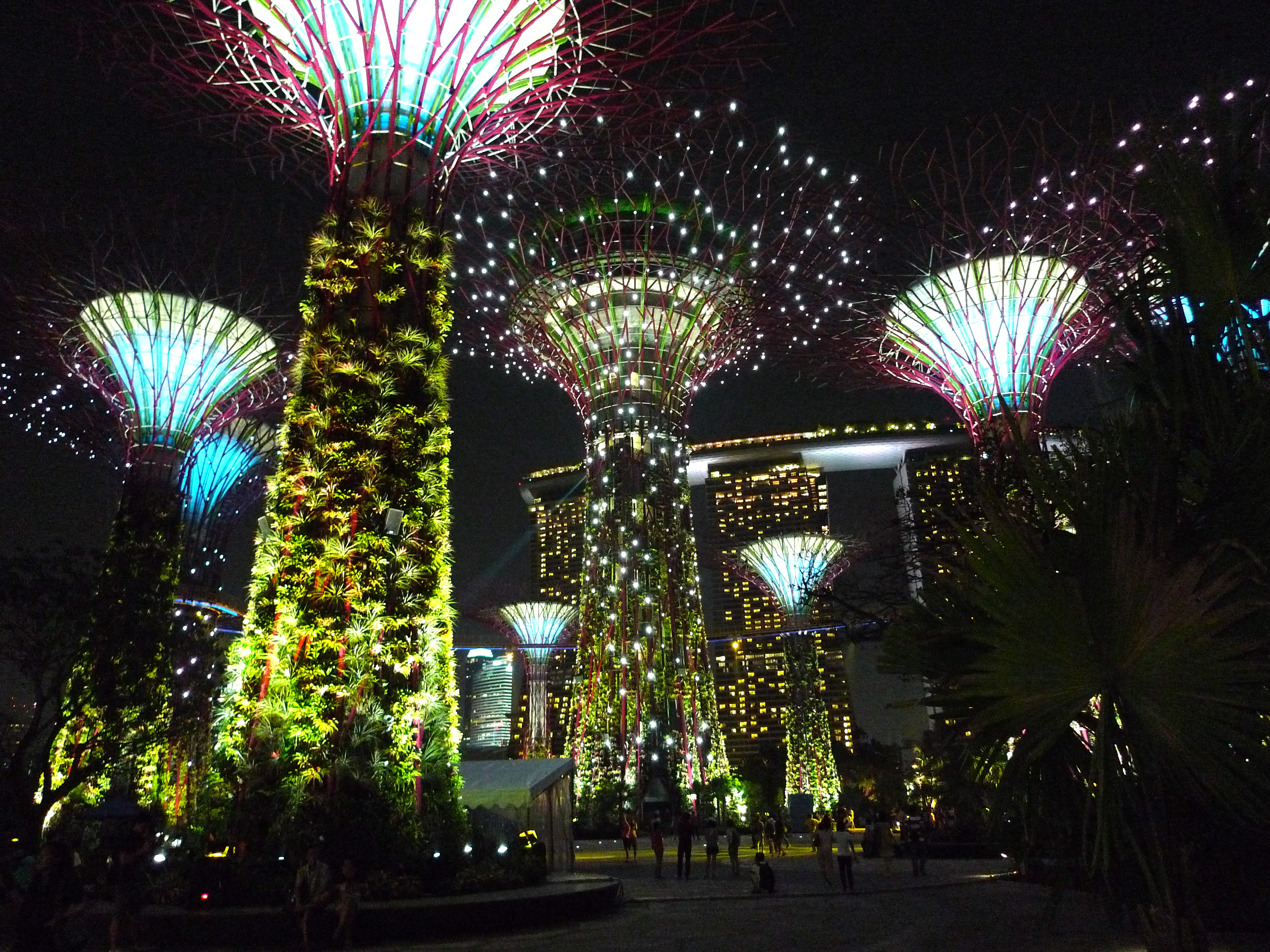 A night view of the Supertree Grove at Gardens by the Bay, Singapore.